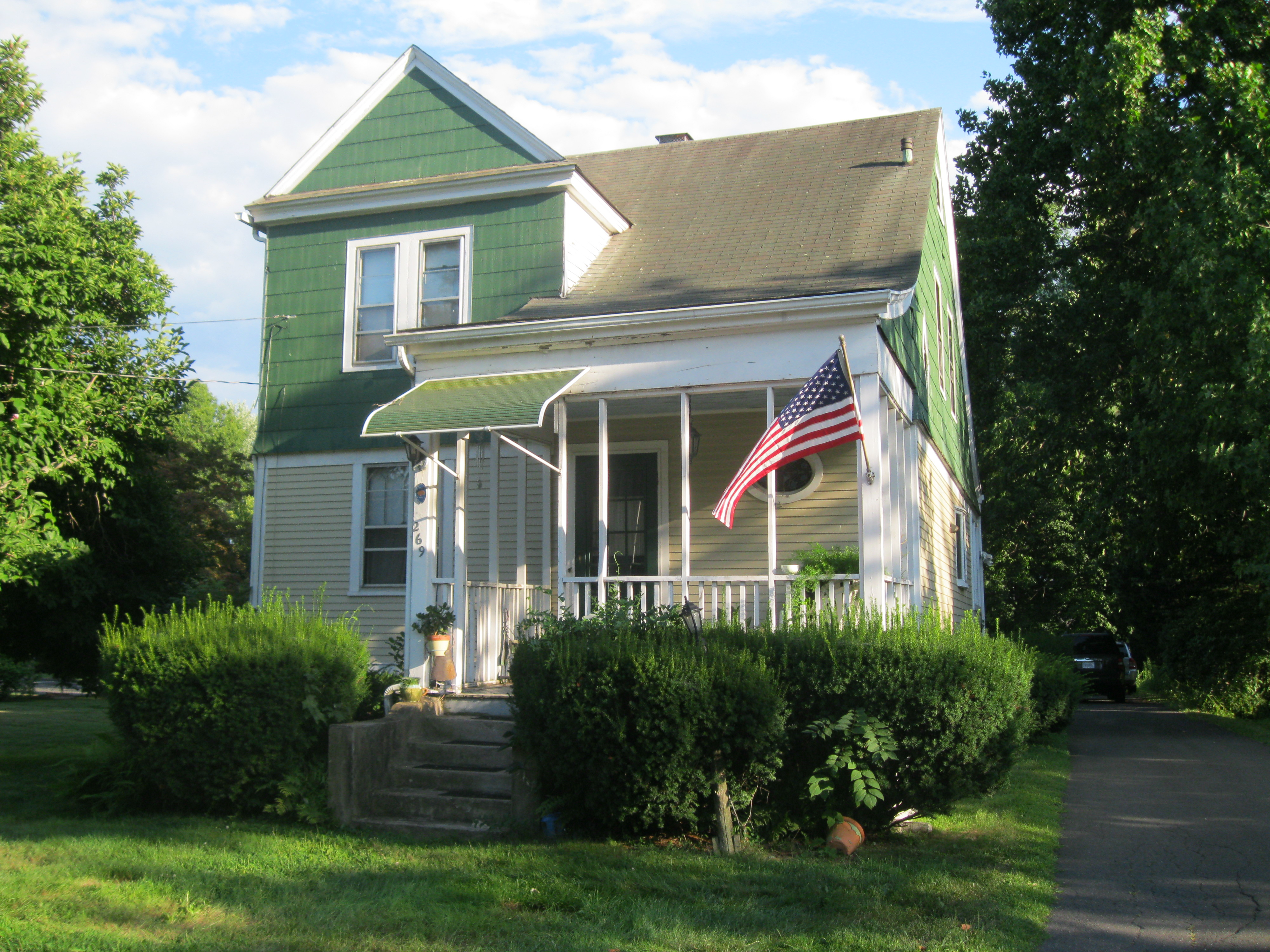 269 West Hill Road in the Newington Junction West Historic District in Newington, Connecticut.